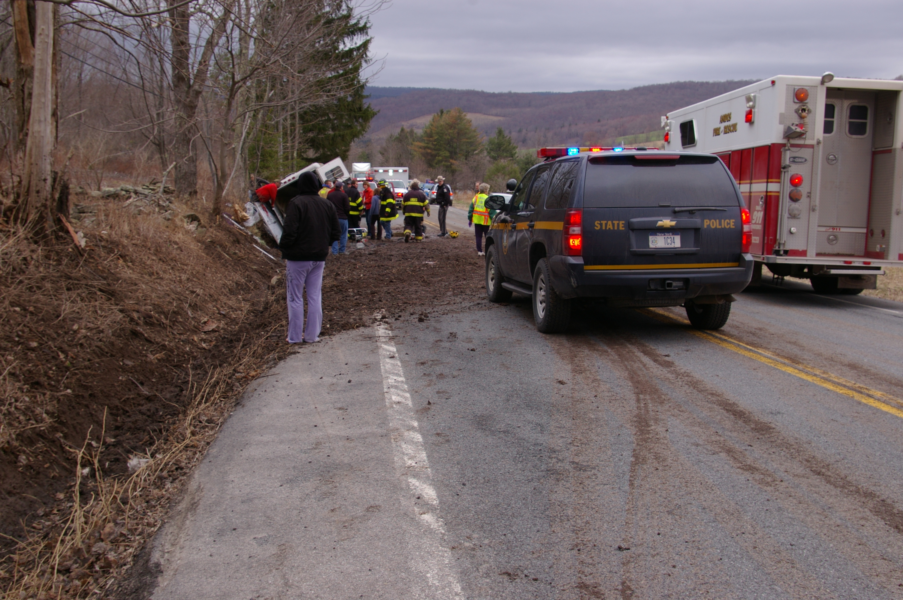 IMGP5165 New York State Troopers arrive.